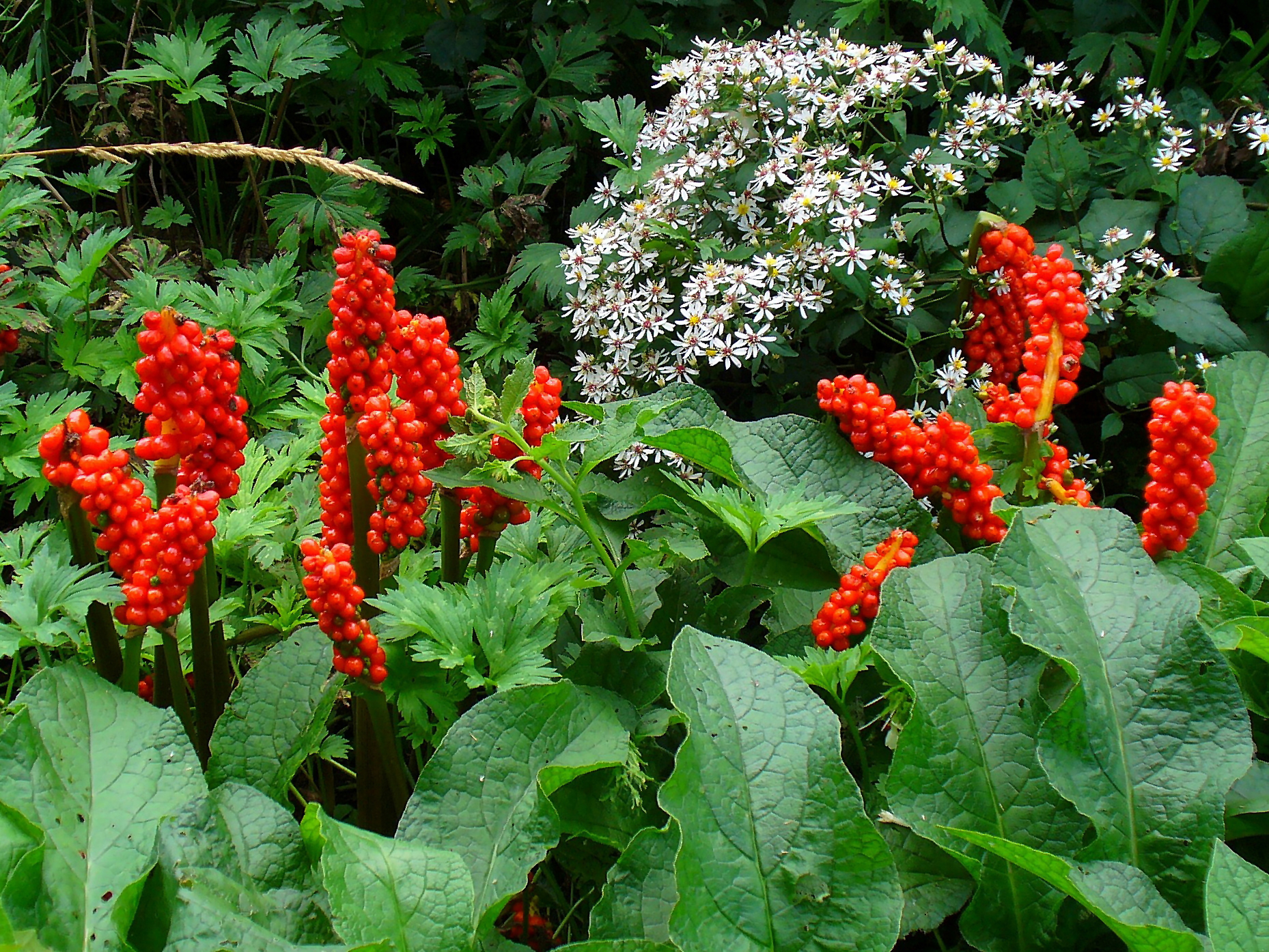 Arum italicum, Araceae, Cuckoo Pint, Italian Lords-and-Ladies, fruits; Stadtgarten Karlsruhe, Germany. The fresh subterranean parts are used in homeopathy as remedy: Arum italicum (Arum-i.)